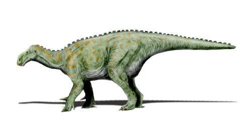 Iguanodon